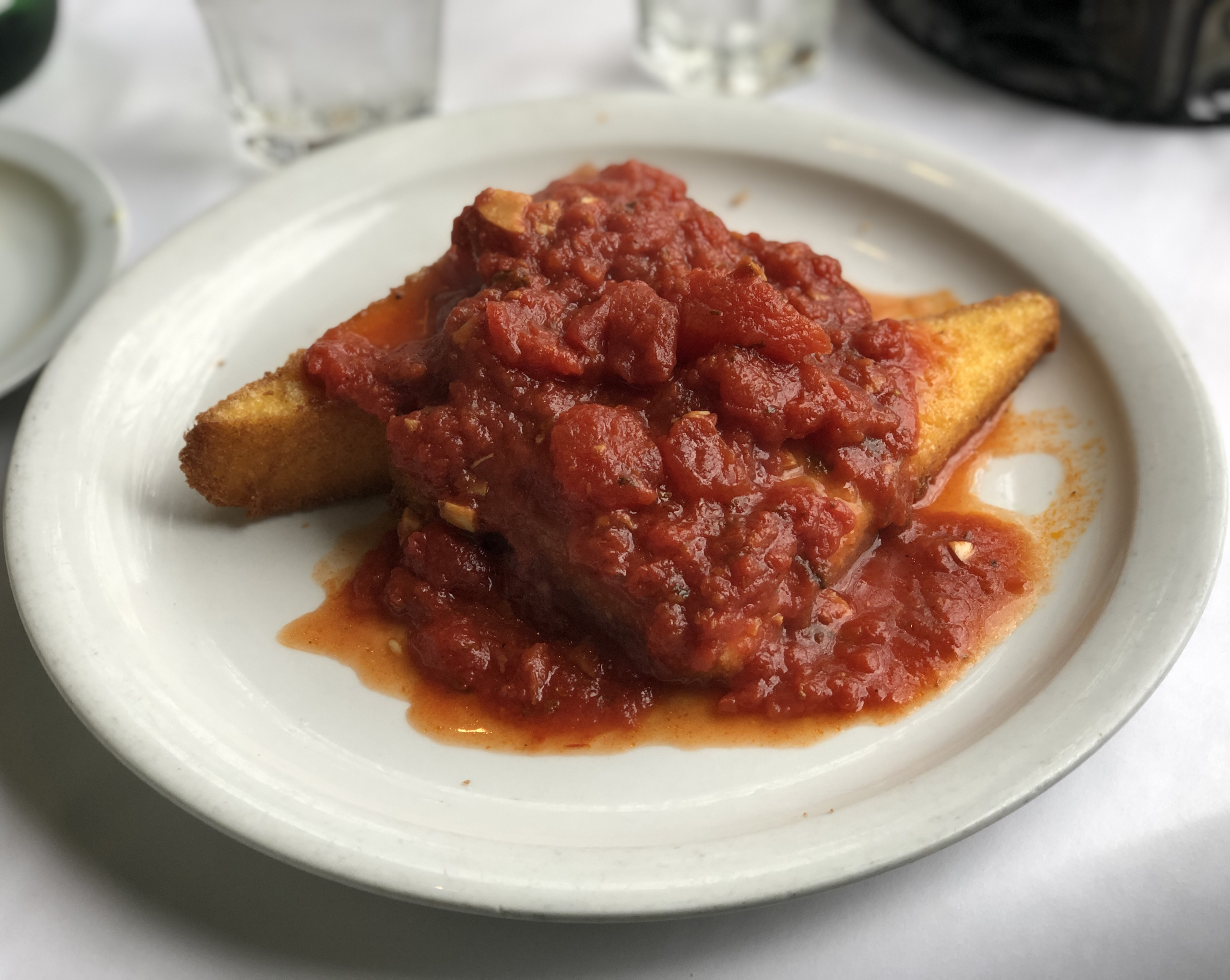 Fried polenta with marinara at Cafe Citti in Kenwood, California